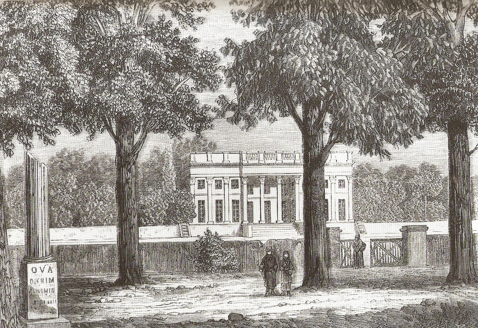 Marynki Palace in Puławy, Poland